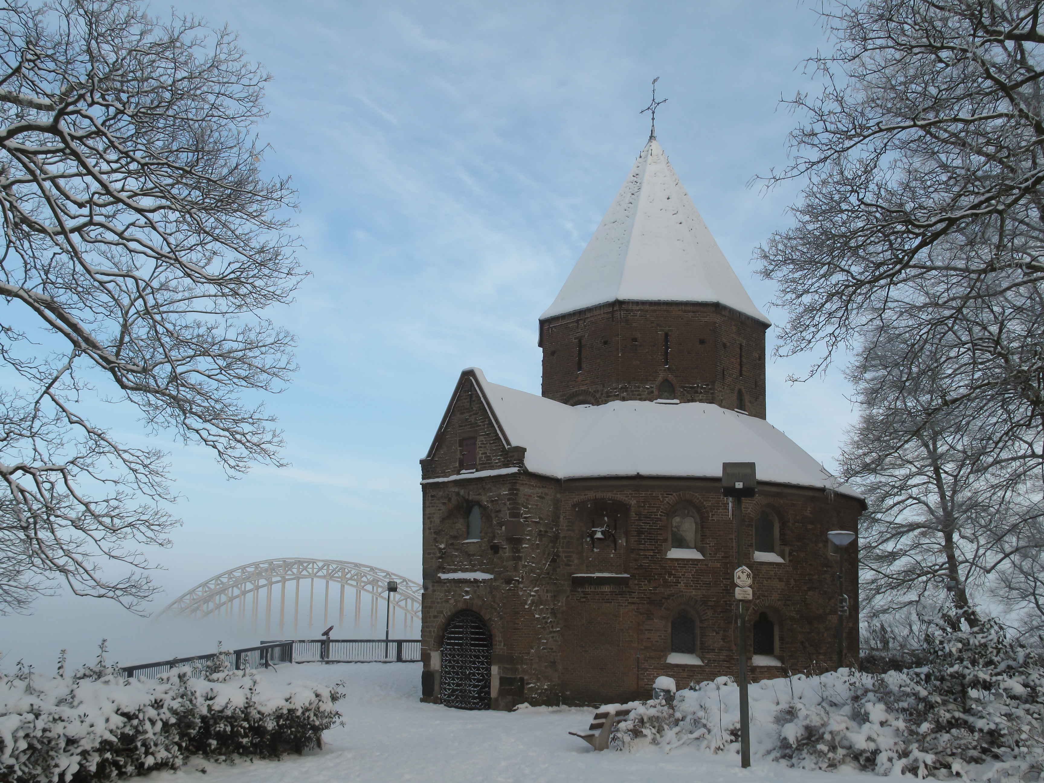 Nijmegen, Valkhof chapel